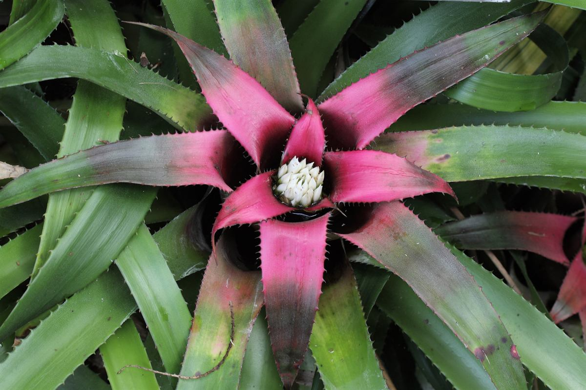 Plants/Bromeliad/Neoregelia/pendula